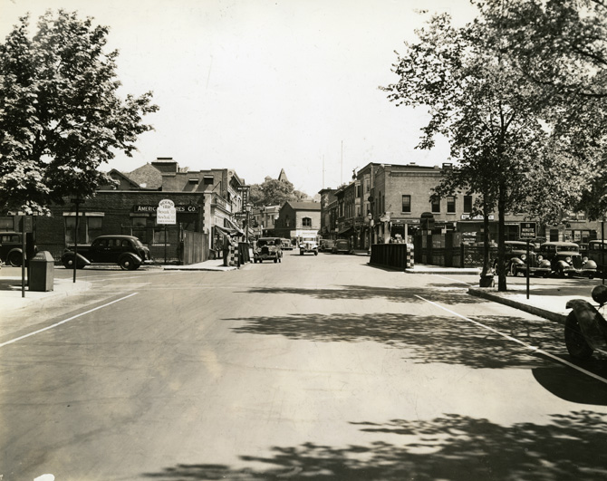 View looking North across Lackawanna Railroad Bridge into Business Section Location: Summit County: Union Format: 8x10 BW Photographer: Nathaniel Rubel